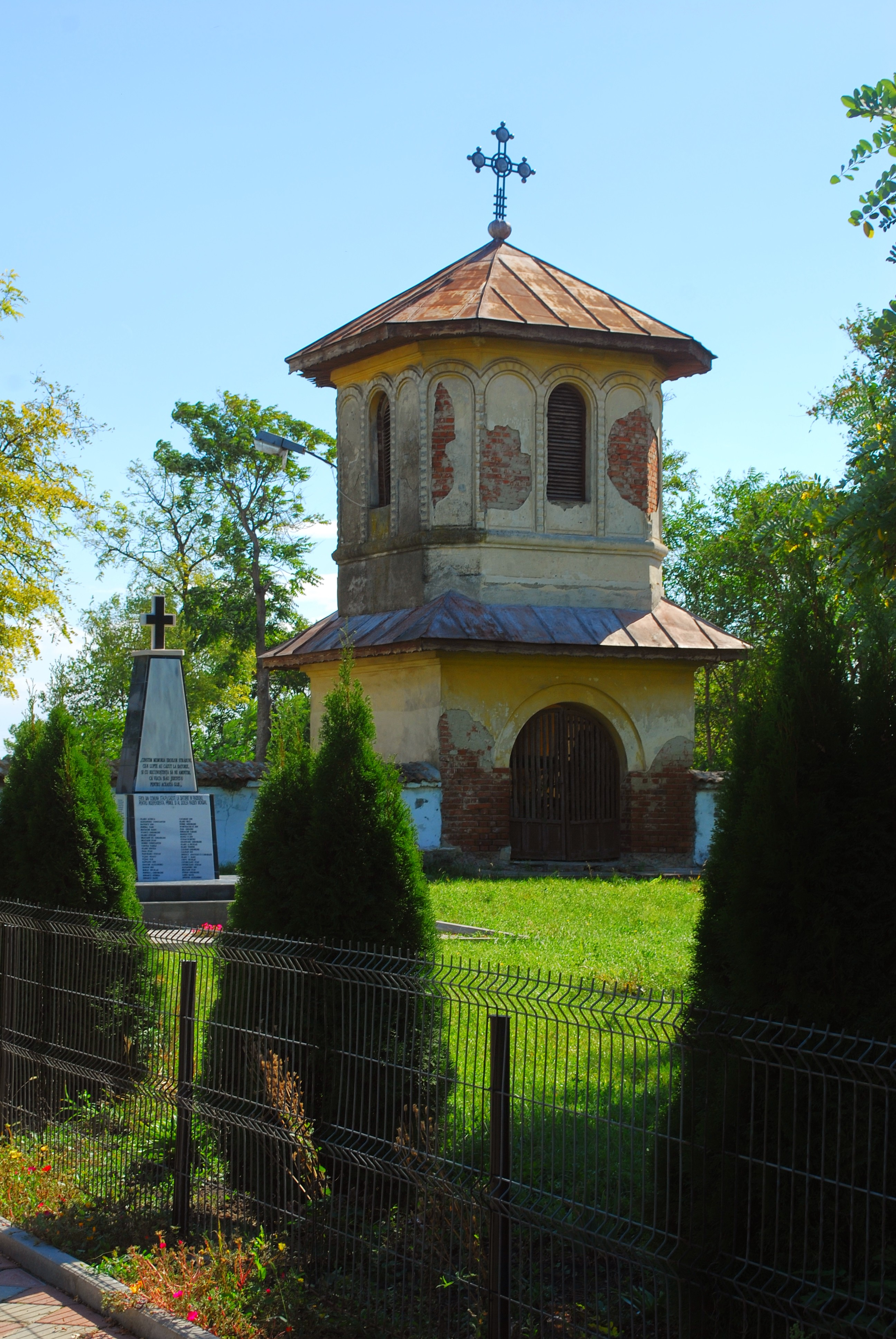 Belfry from Saint Demetrius' and the Holy Emperors' Church in Stâlpu, Buzău County, RomaniaRomână: Clopotnița bisericii „Sfântul Dimitrie” și „Sfinții Împărați” din Stâlpu, județul Buzău, România 01